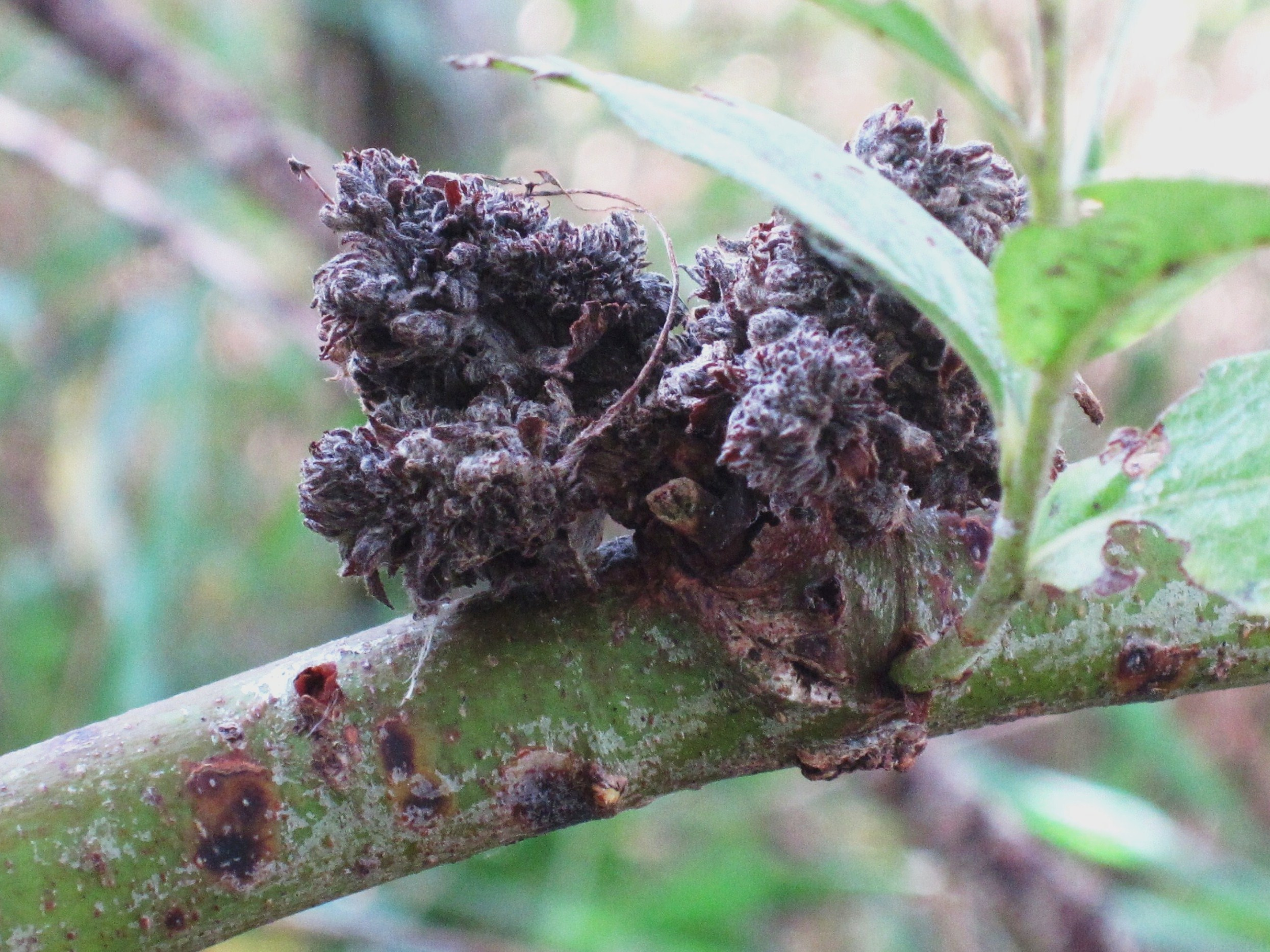 Stenacis triradiatus (Eriophyes triradiatus) (willow witches' broom mite) induced gall on Salix sp. (Willow)